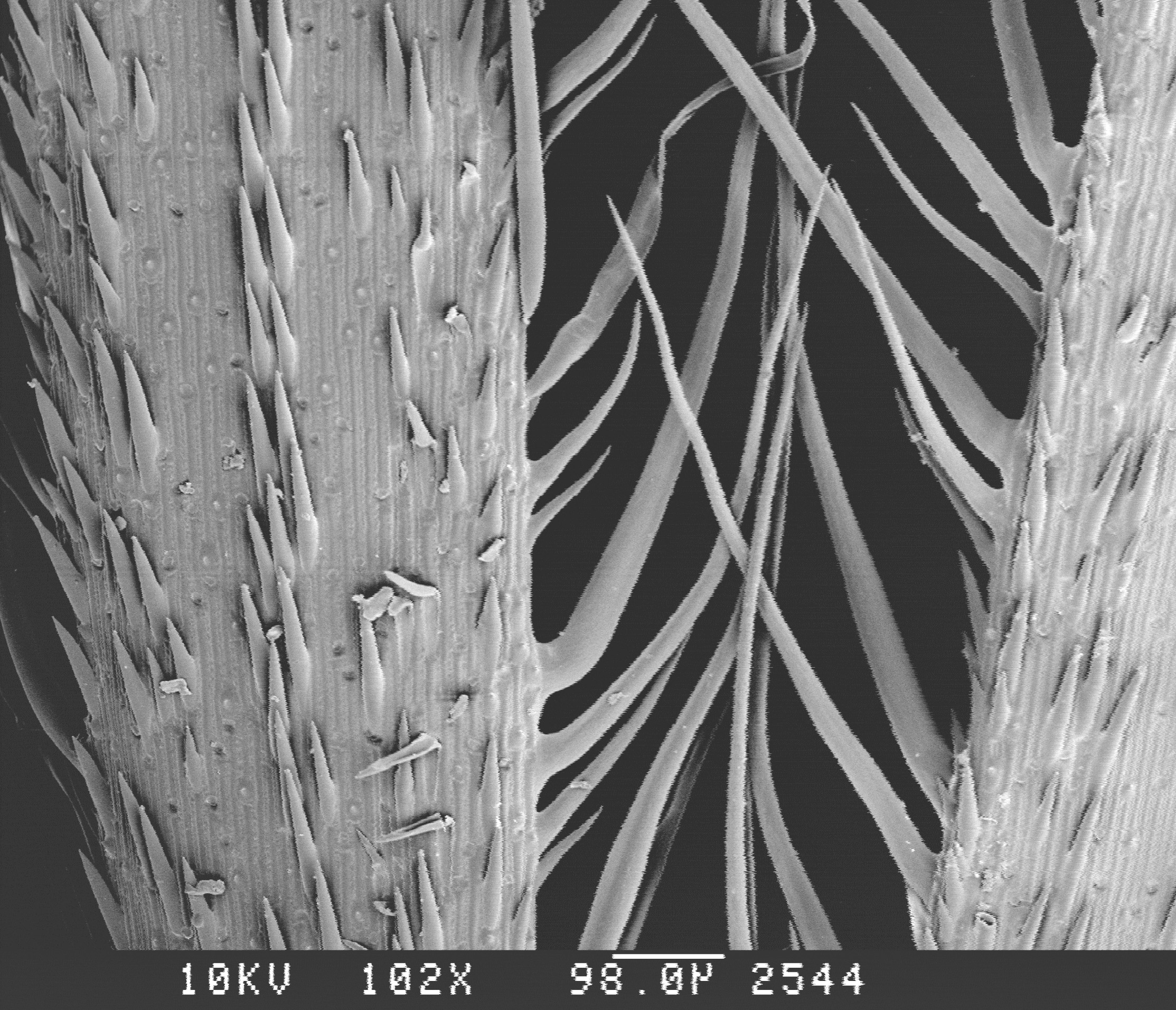 Retrorse barbs and trichomes at margin of Hordeum murinum spikelet. Scanning electron micrograph Source: Curtis Clark